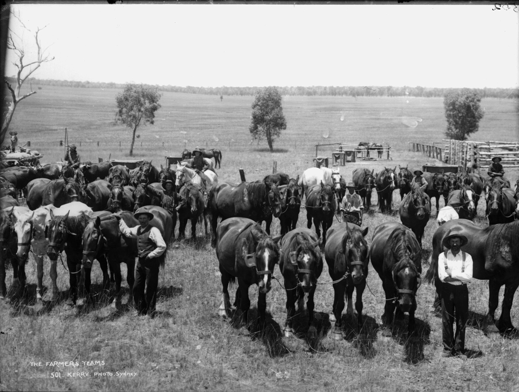 Format: Glass plate negative. Repository: Tyrrell Photographic Collection, Powerhouse Museum Part Of: Powerhouse Museum Collection General information about the Powerhouse Museum Collection is available at Persistent URL: Acquisition credit line: Gift of Australian Consolidated Press under the Taxation Incentives for the Arts Scheme, 1985